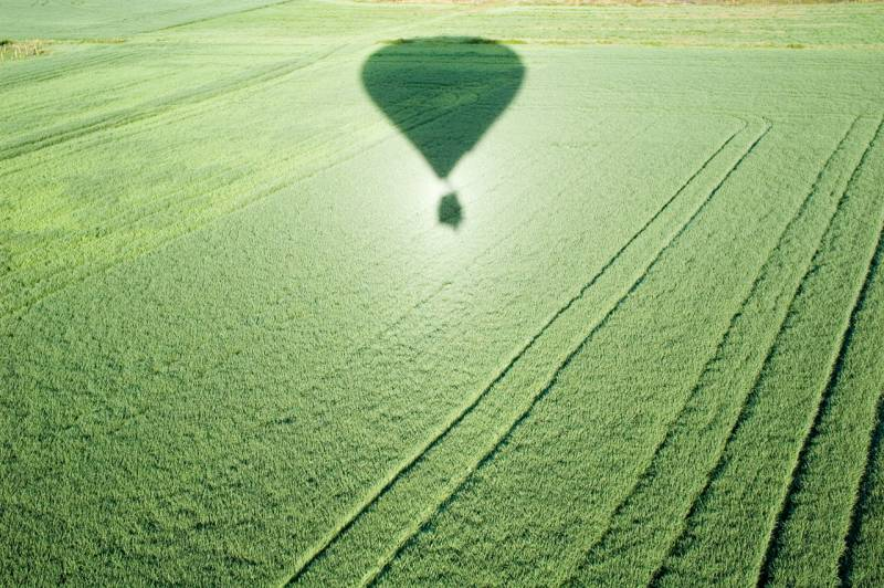 Heiligenschein or opposition effect Ballooning over Oxfordshire, UK. Nikon D70s